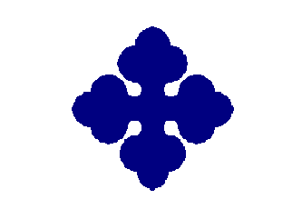 XVIII Corps, Army of the James, 3rd Division Badge